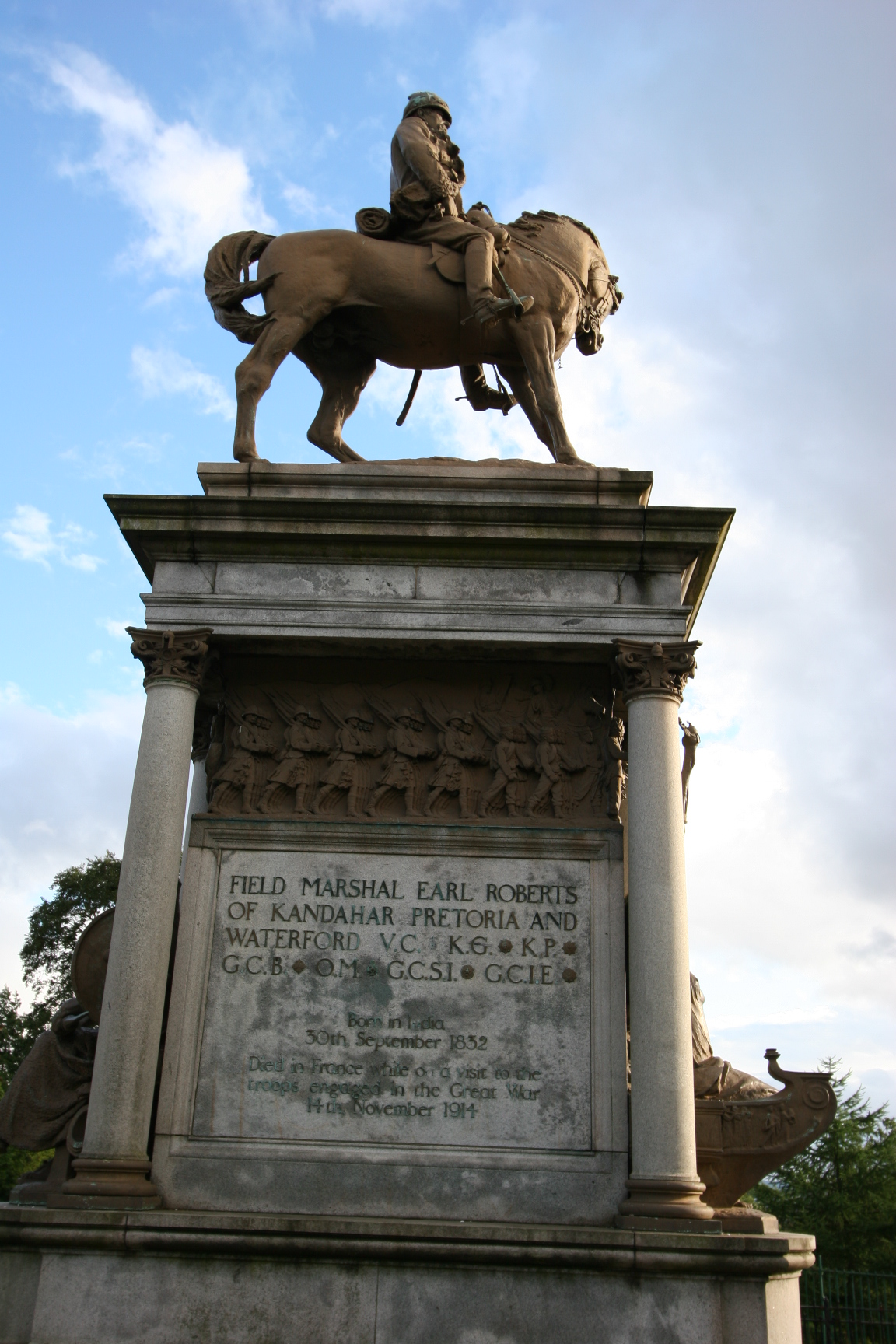 Opposite side of the memorial of Frederick Roberts, 1st Earl Roberts in Glasgow